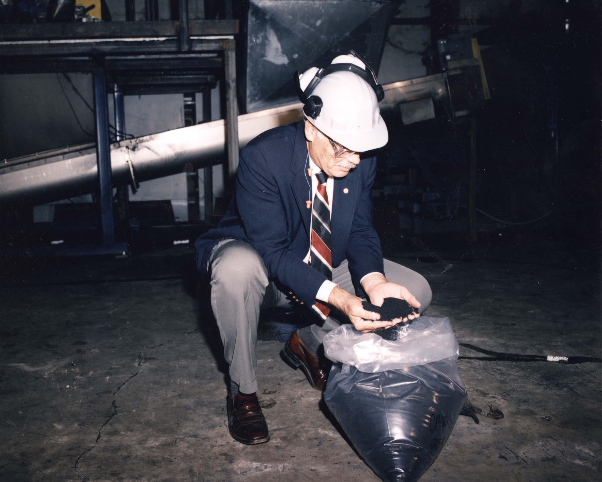 NASA's Technology Transfer Office (TTO) at Stennis Space Center worked with a small tire recycling company, Cryopolymers, Inc. in St. Francisville, La., to improve its process for recycling used tires. Stennis helped Cryopolymers make better use of the cryogens, or super-cold fluids, used in its recycling process. First, the tires are frozen, then broken down and made into a material called "crumb," which can be used in asphalt road beds, agricultural hoses, and truck bed liners. TTO based this assistance on NASA's experience using cryogens in the testing of Space Shuttle Main Engines.